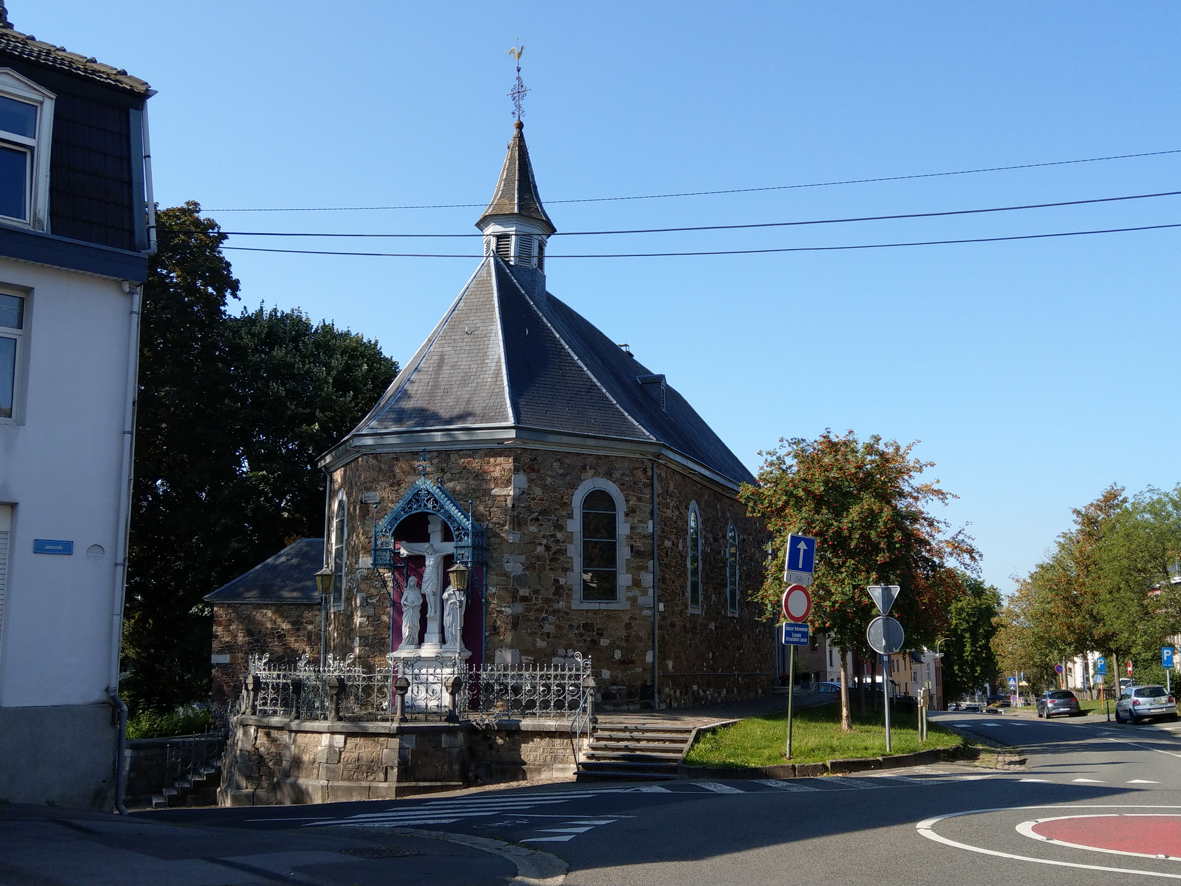 History and date, see category.